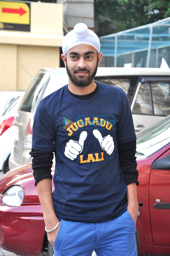 Manjot Singh at ‘Fukrey’ Jugaadu event